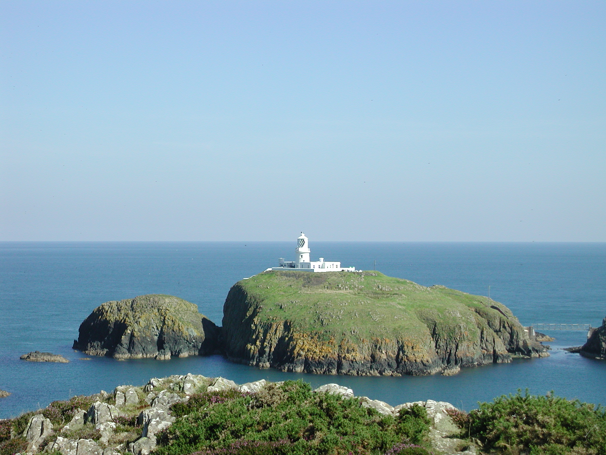 Strumble Head Lighthouse